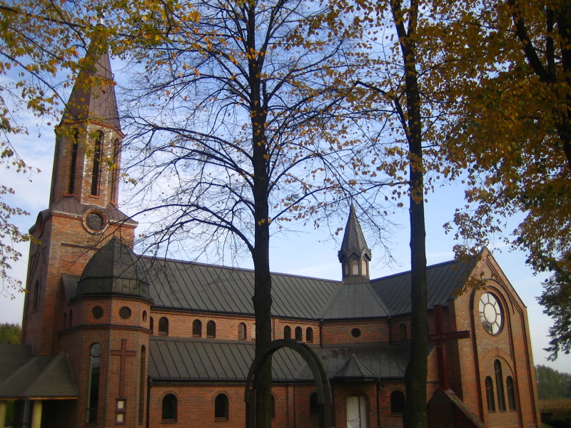 Church in Stanowice, Silesia, PL